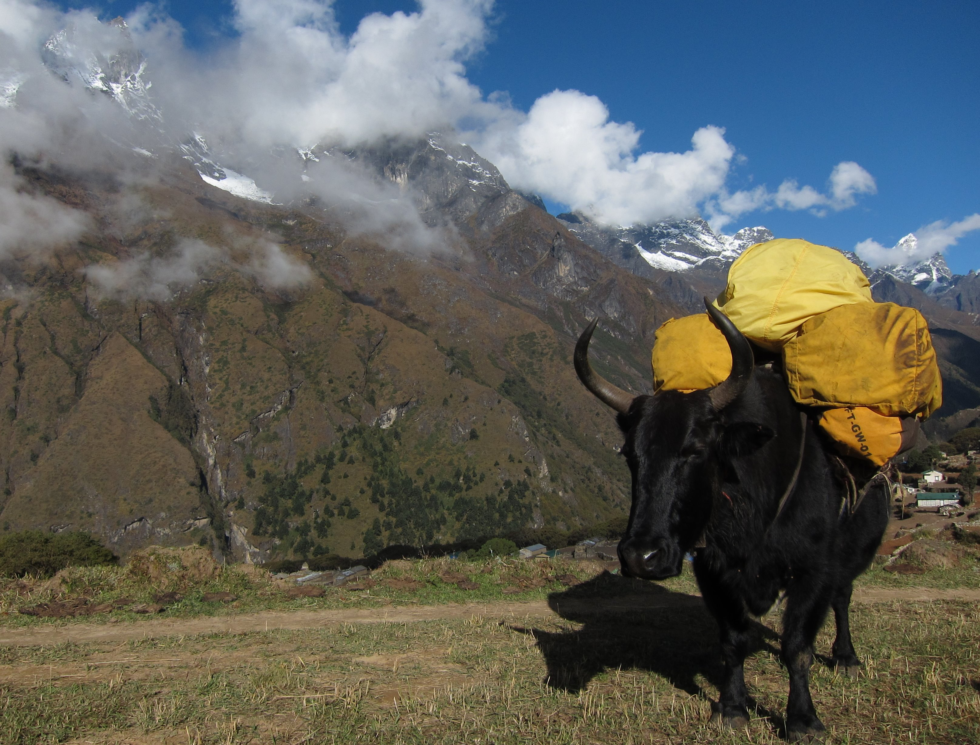 Zokyo loaded with bags